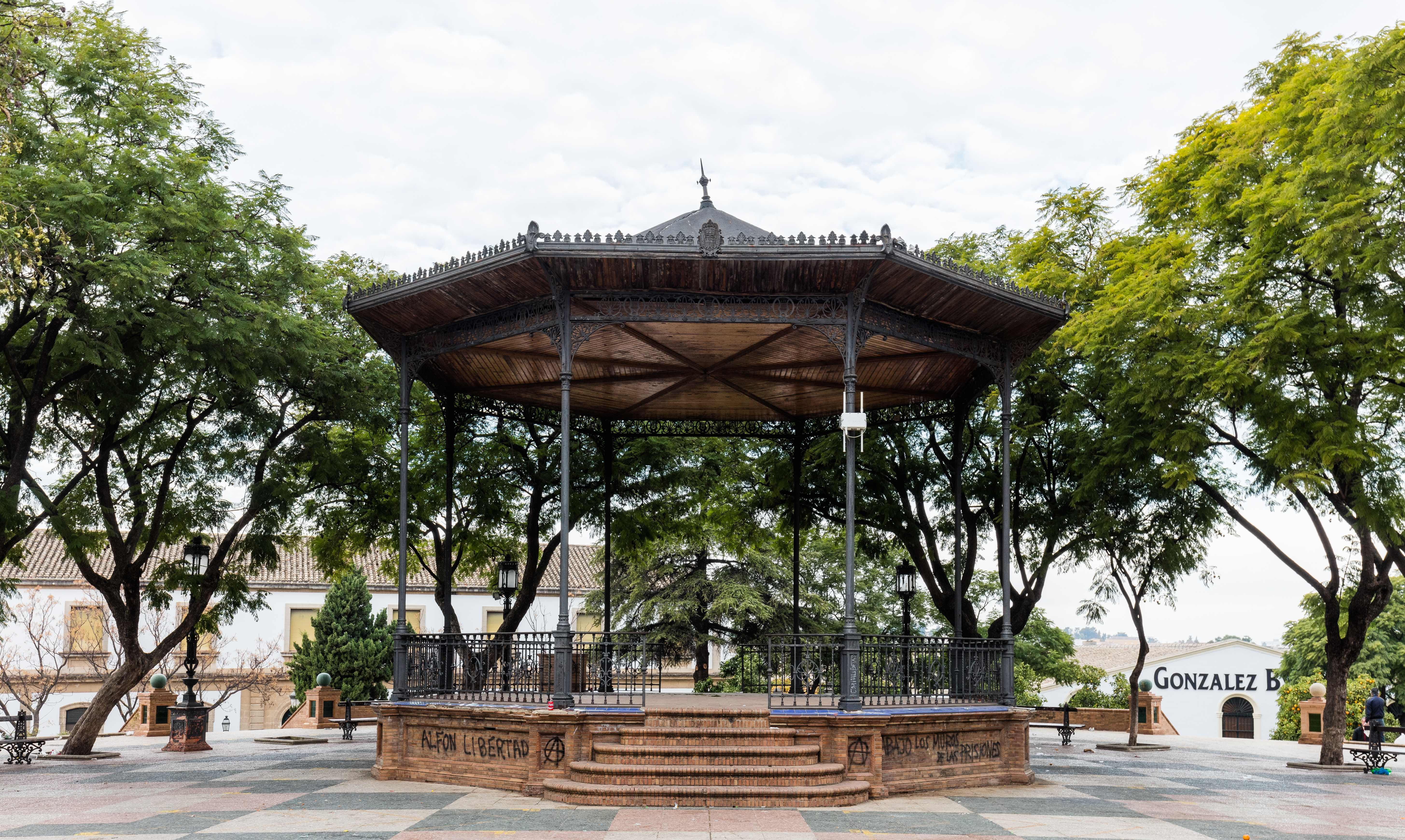 Kiosk, Jerez de la Frontera, Spain